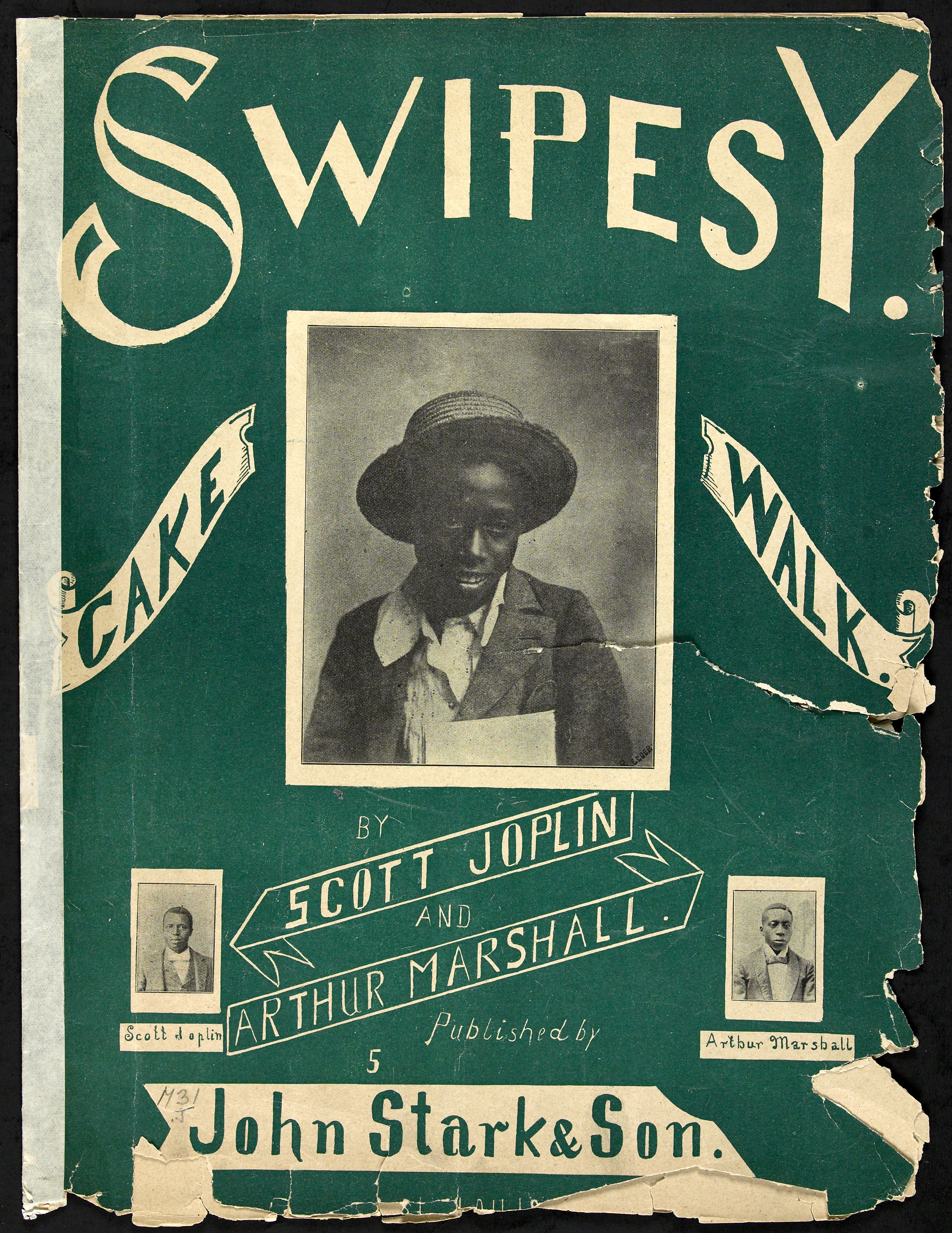 Swipesy Cake Walk. Sheet music cover, 1900 Stark edition, with small photos of Scott Joplin & Arthur Marshall.